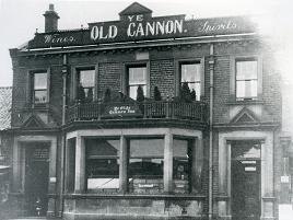 Ye Olde Cannon, Sheriff Hill circa 1850. Famous as a meeting place between the Sheriffs of Durham en route to the Newcastle Assizes, this is the pub from which Sheriff Hill derived its name. Taken from Gateshead Council's public archives and available at